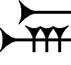 Cuneiform sign In the 1350-1330 BC Amarna letters, Akkadian language usage for ir, or er; (use for the e, i, or the r, or er, ir).